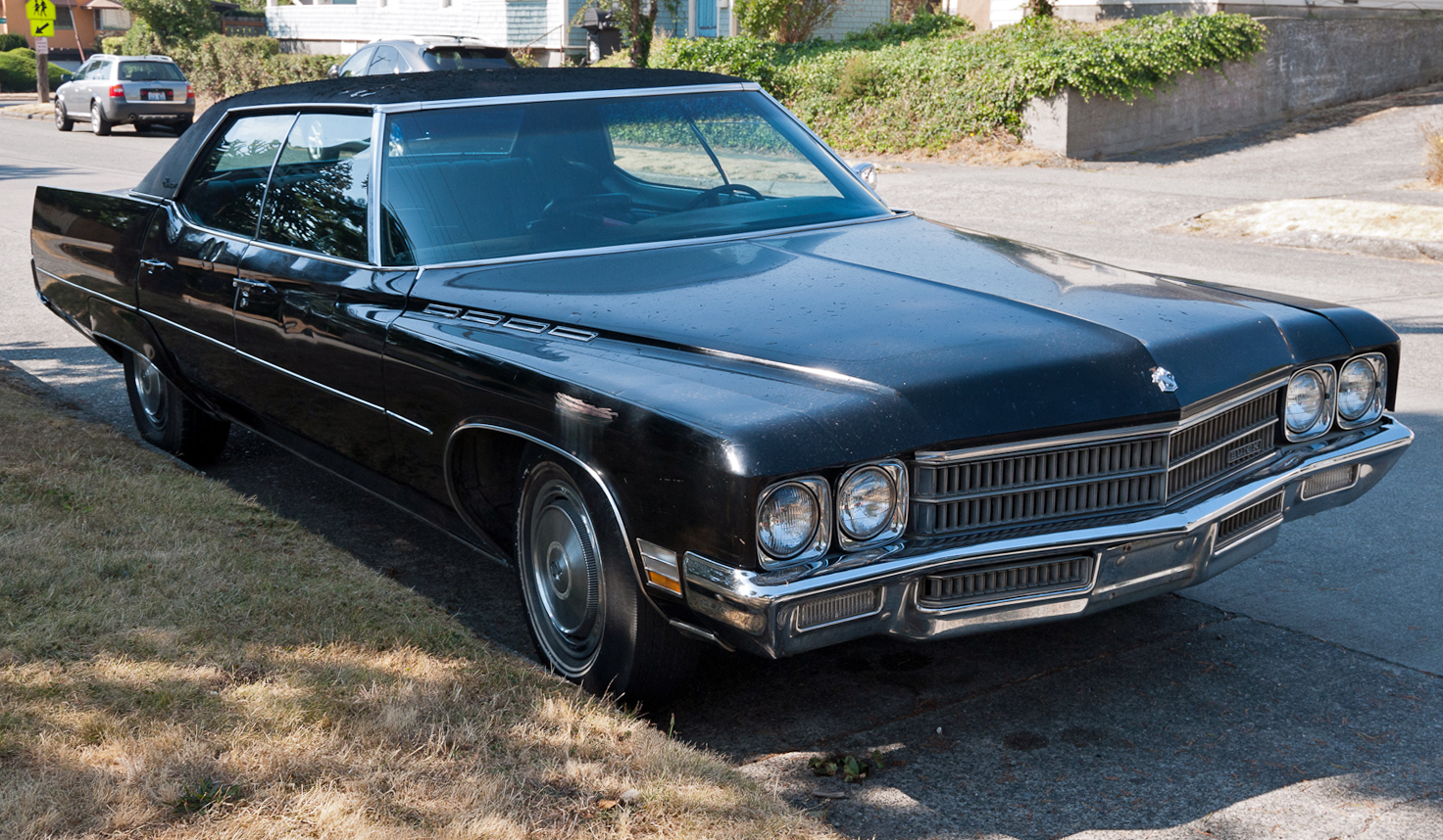 1971 Buick Electra 225 in west Seattle